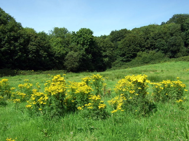 Ragwort and woods near Abermawr A fine stand of this much-maligned plant. Ragwort (Senecio jacobae) has received an enormous amount of condemnation from the horseloving community on account of its toxicity; in fact much of the negative publicity is based on myth and misinformation and its destruction usually does more harm than good ( Ragwort is a foodplant for around 30 insect species and others are attracted by its nectar. This particular clump was host to Painted Lady and Small Copper butterflies, honey and other bees, hoverflies and many more.